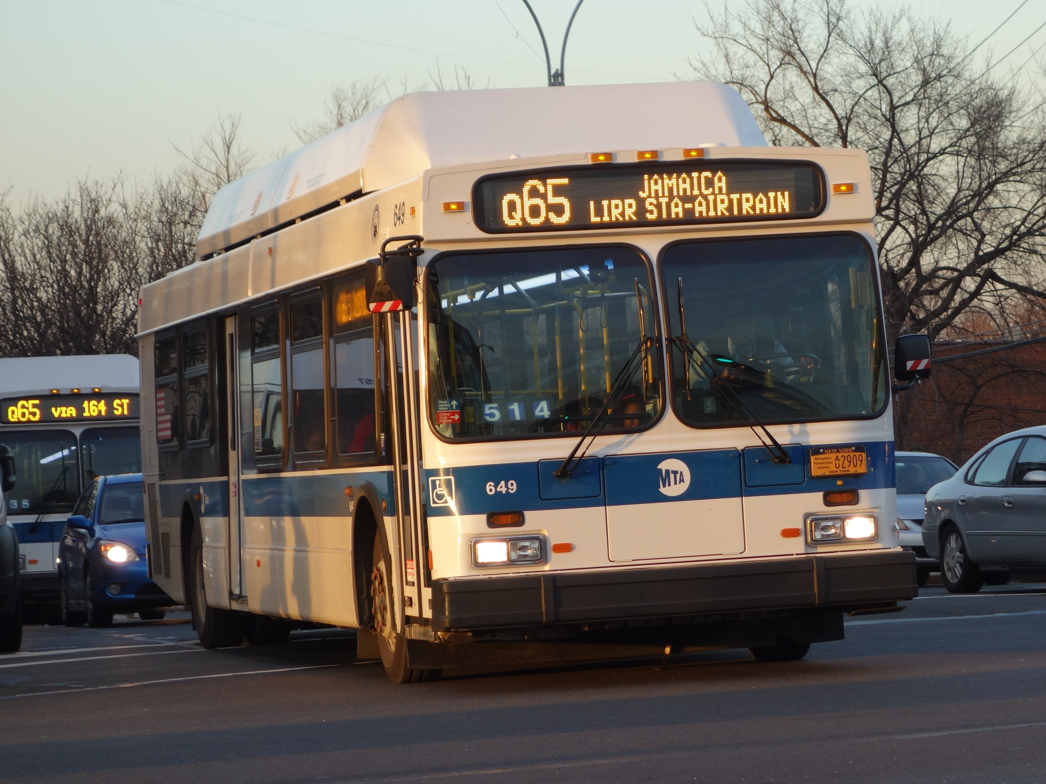 A Jamaica-bound Q65 Limited bus (No. 649) at 164th Street and Union Turnpike in Queens, New York City.